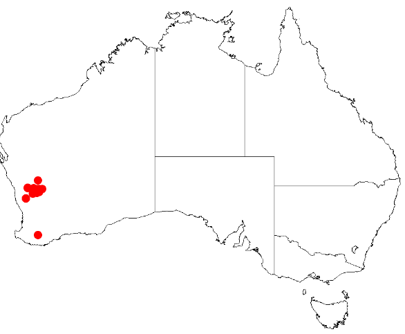 Acacia kochii Occurrence data from Australasia Virtual Herbarium downloaded from on 8 December 2018